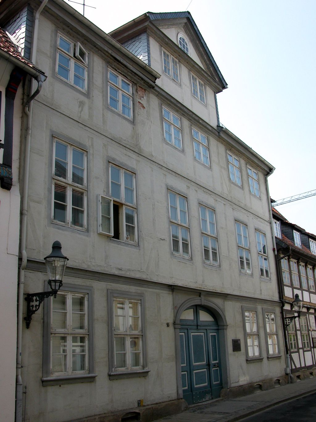 Brunswick, Germany: Stobwasser House.